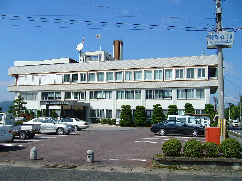 Former Koka City Hall in Shiga Prefecture, Japan旧甲賀市役所水口庁舎